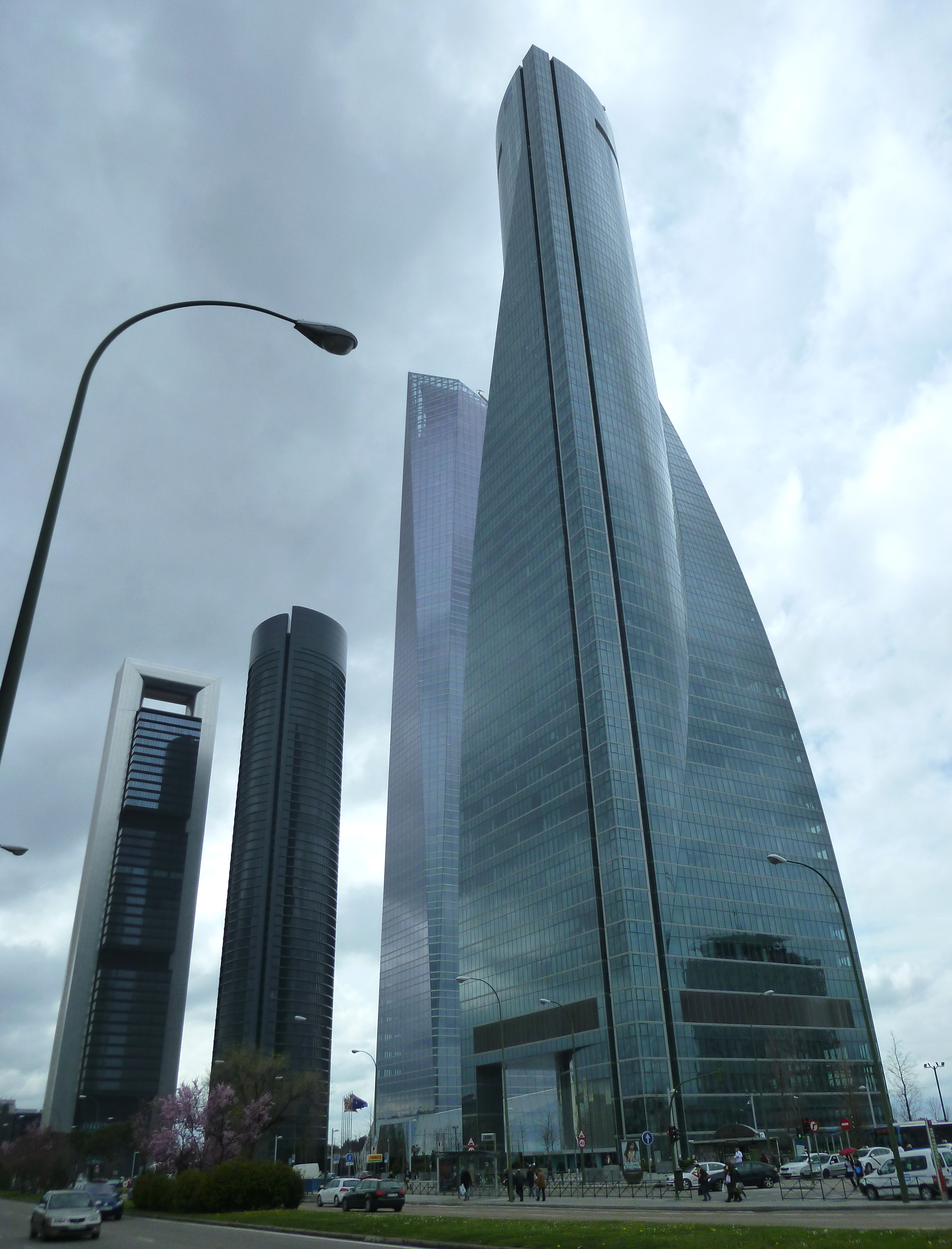 View of Cuatro Torres Business Area in Madrid (Spain). From right to left: Torre Espacio, Torre de Cristal, Torre Sacyr Vallehermoso and Torre Caja Madrid.